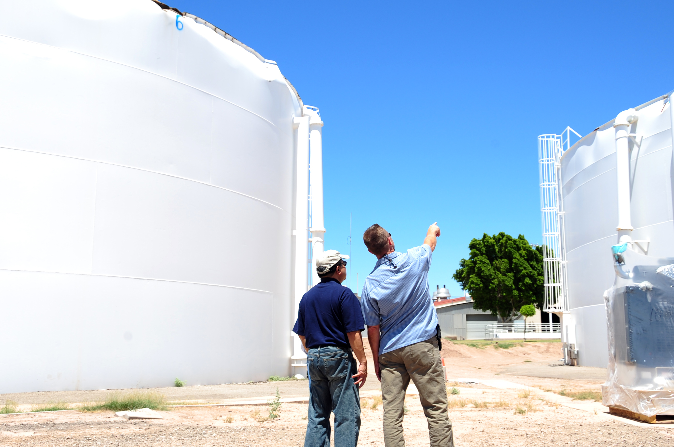 Calexico, CA, June 14, 2010 -- FEMA Deputy Federal Coordinating Officers inspect damages after a 7.2 magnitude earthquake struck the massive water treatment tanks, in Imperial County, California. The FEMA Officials are inspecting the structures for cracks and damages associated with Public Assistance (PA) emergency protective measures category B. Adam DuBrowa/FEMA